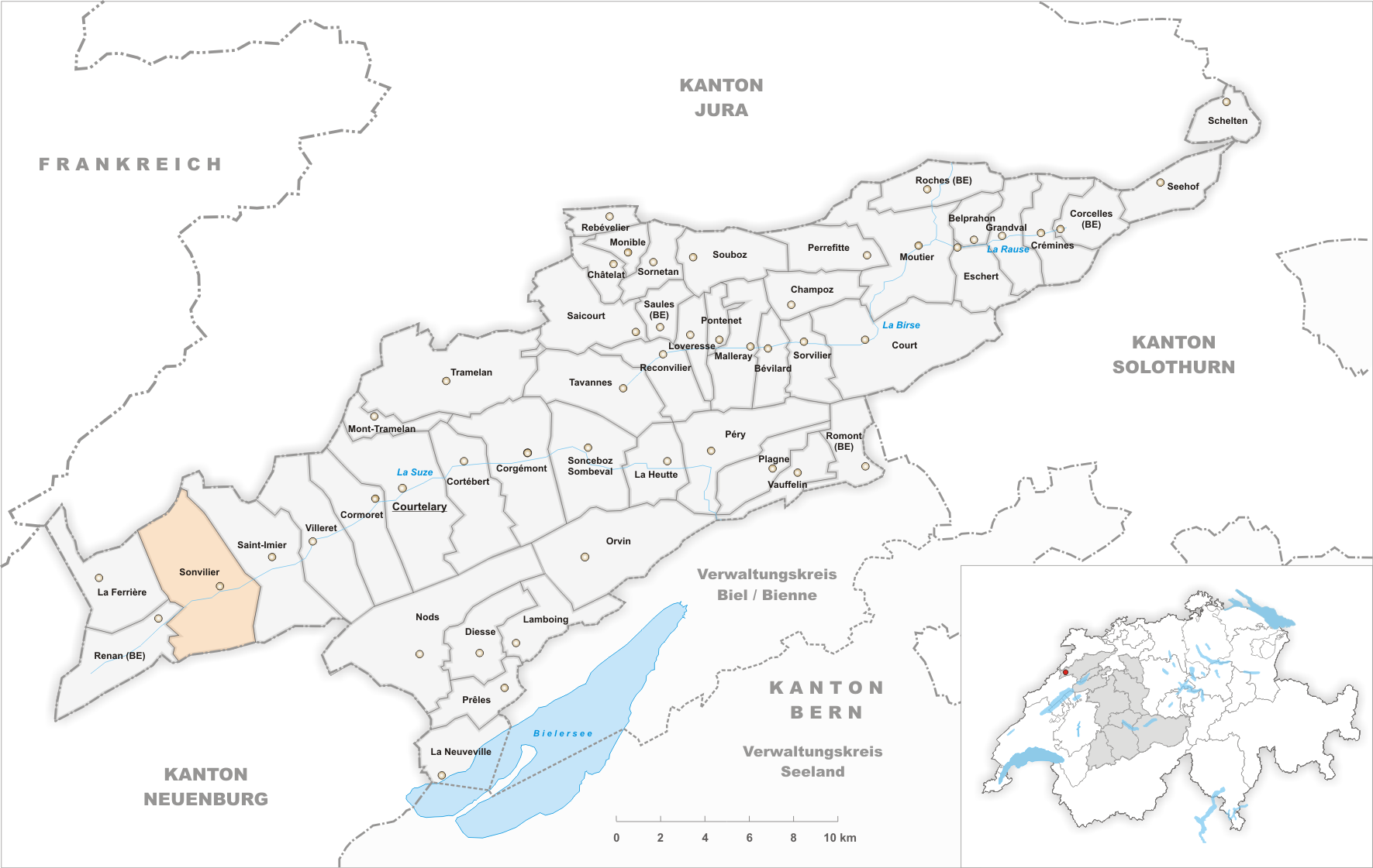 Municipality Sonvilier